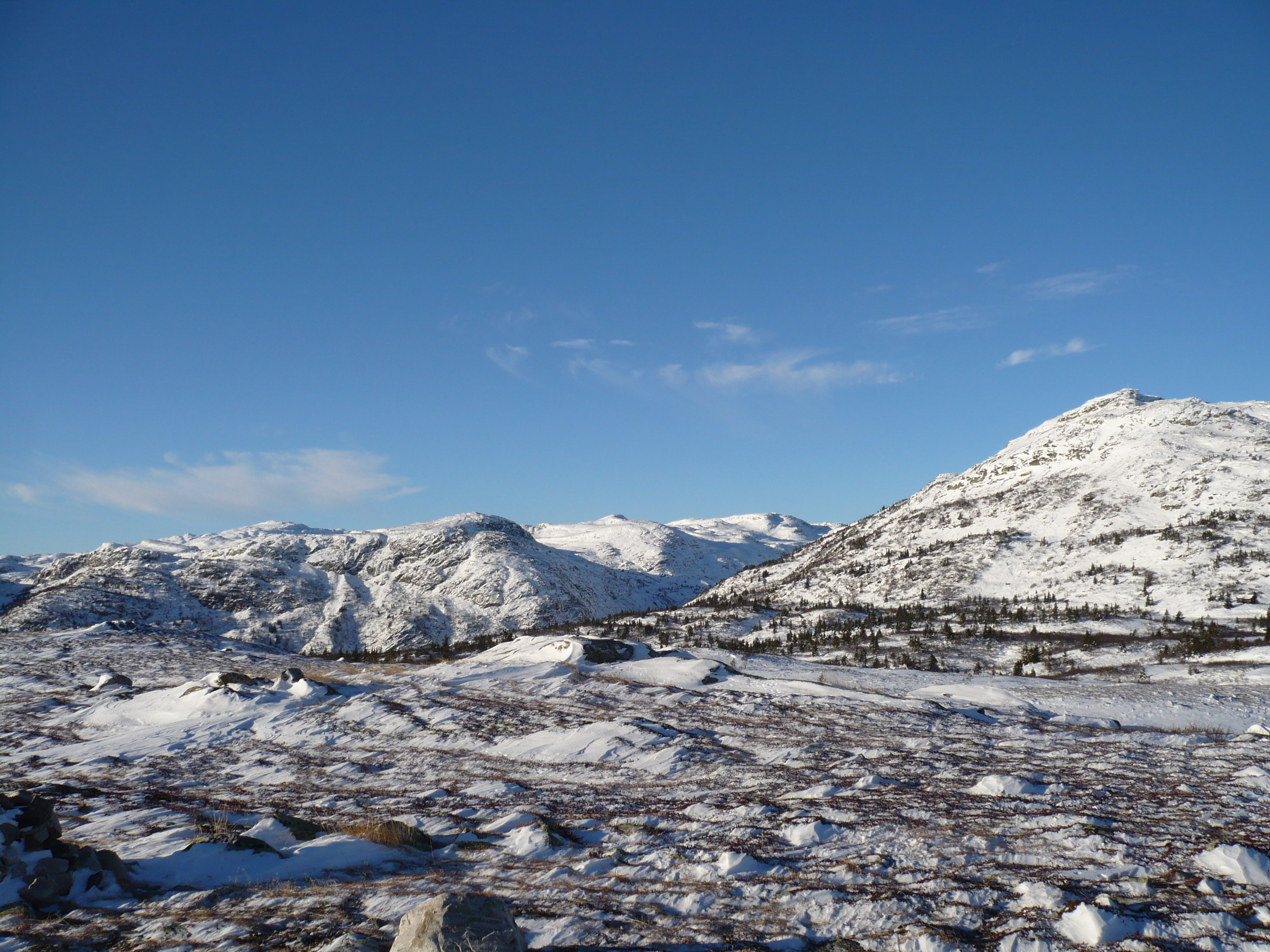 Lifjell, Gleksefjell to the right and wiew over to Nybufjellet taken from the top of Krintofjellet